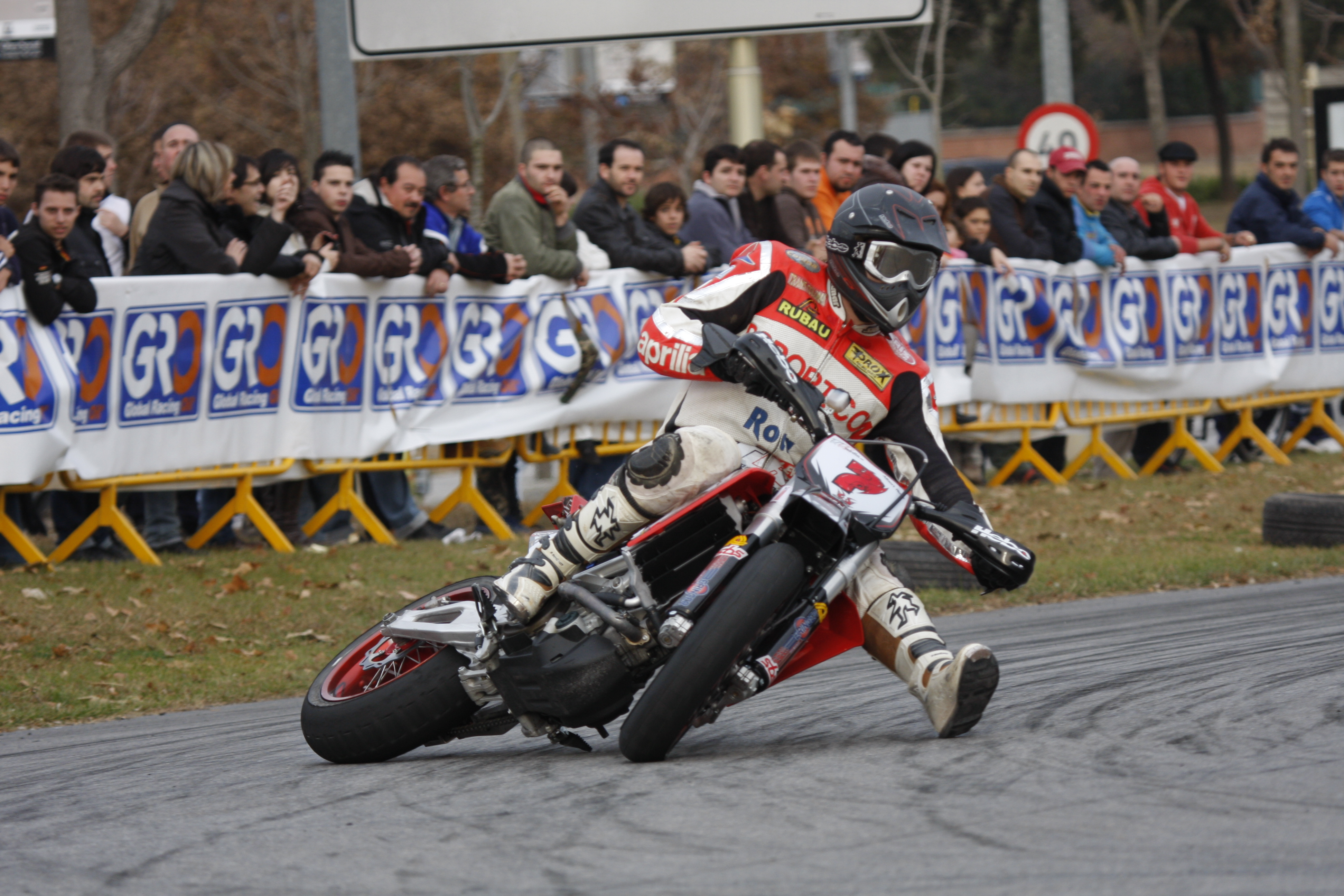 Albert Roca, Motorshow Girona 2007